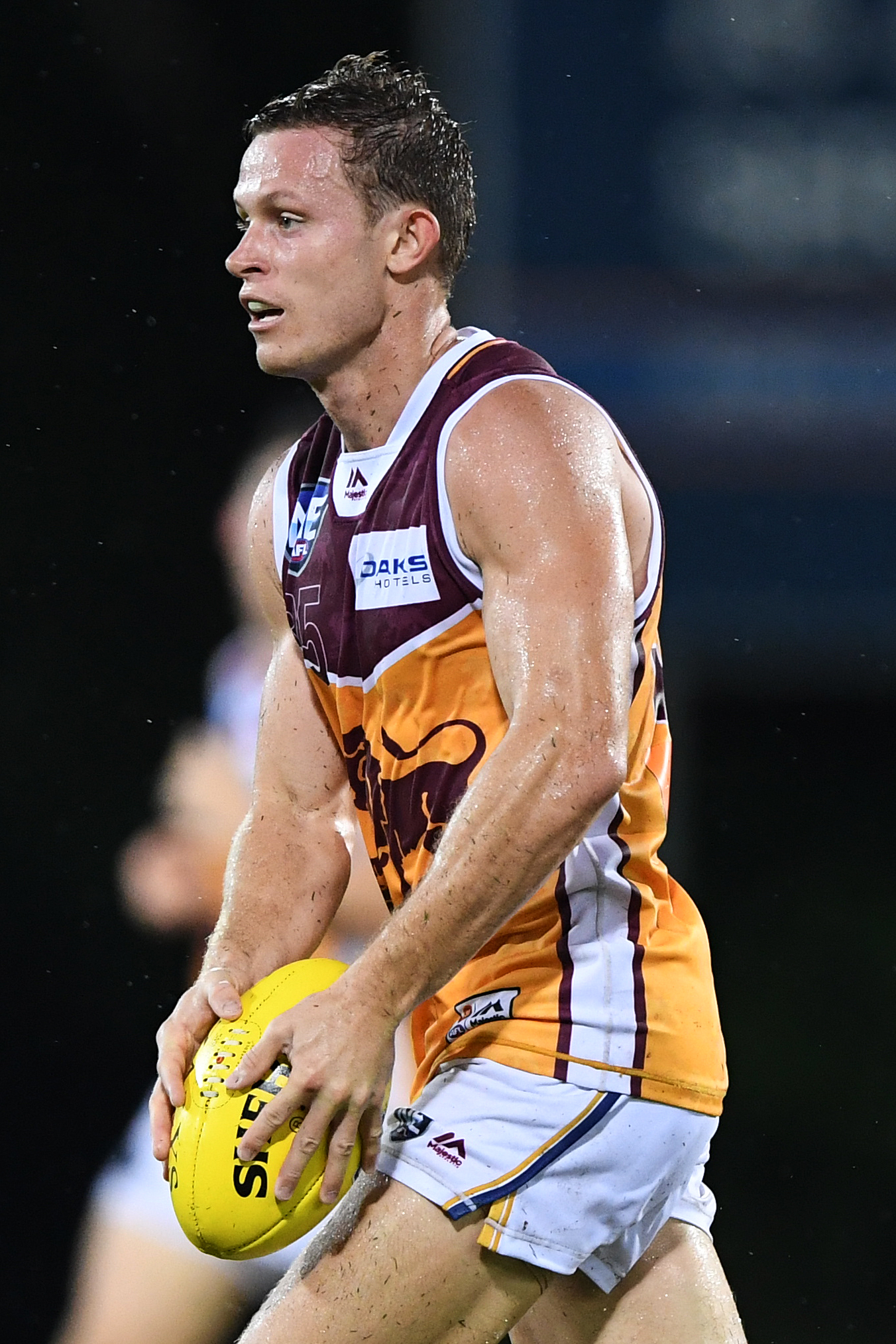 Ryan Lester of the Brisbane Lions during the NEAFL round one match between NT Thunder and Brisbane Lions at TIO Stadium on 6 April 2019 in Darwin, Australia.